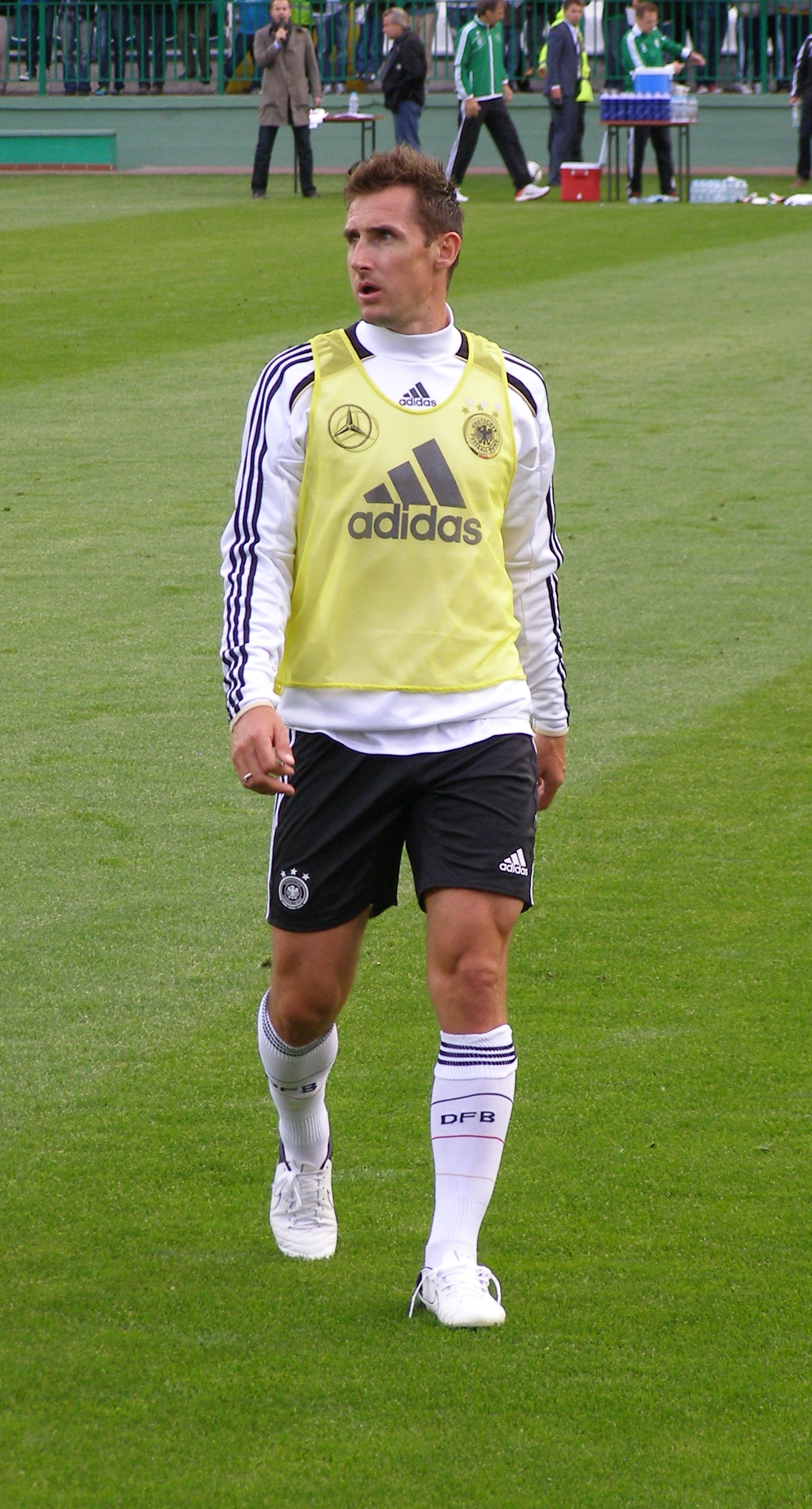 Gdańsk - open training of the Germany national team before Euro 2012 tournament at the MOSiR stadium - Miroslav Klose